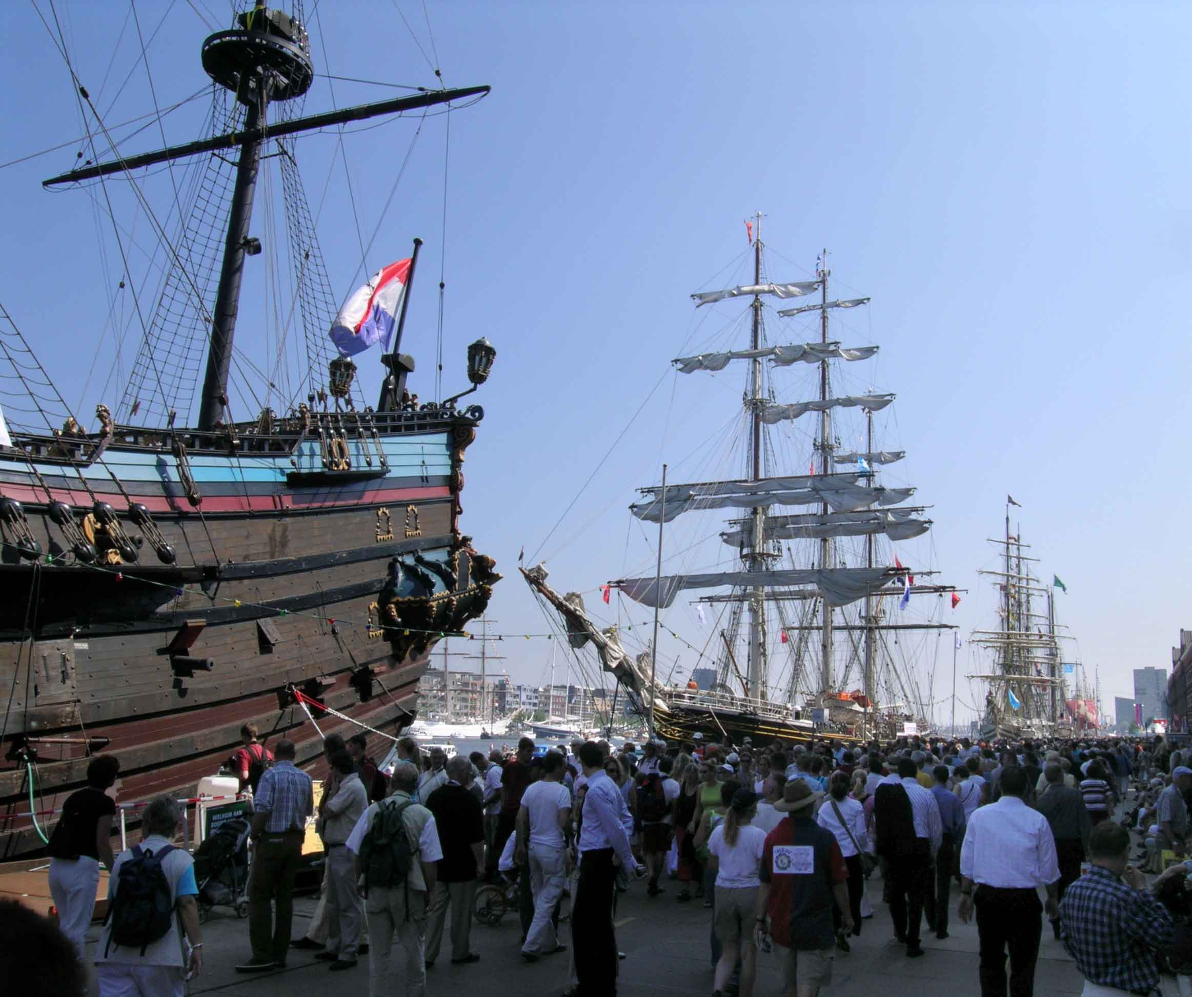 Photograph by Dirk van der Made (User:DirkvdM - for more photos see user:DirkvdM/Photographs). The crowd admiring ships at SAIL Amsterdam, 18 August 2005.